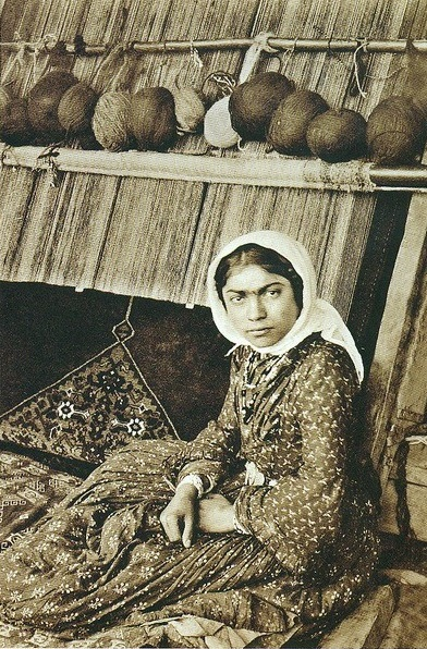 Azeri carpet weaver from Karabakh